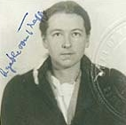 This is a photo of Agathe von Trapp from her naturalization application, found on